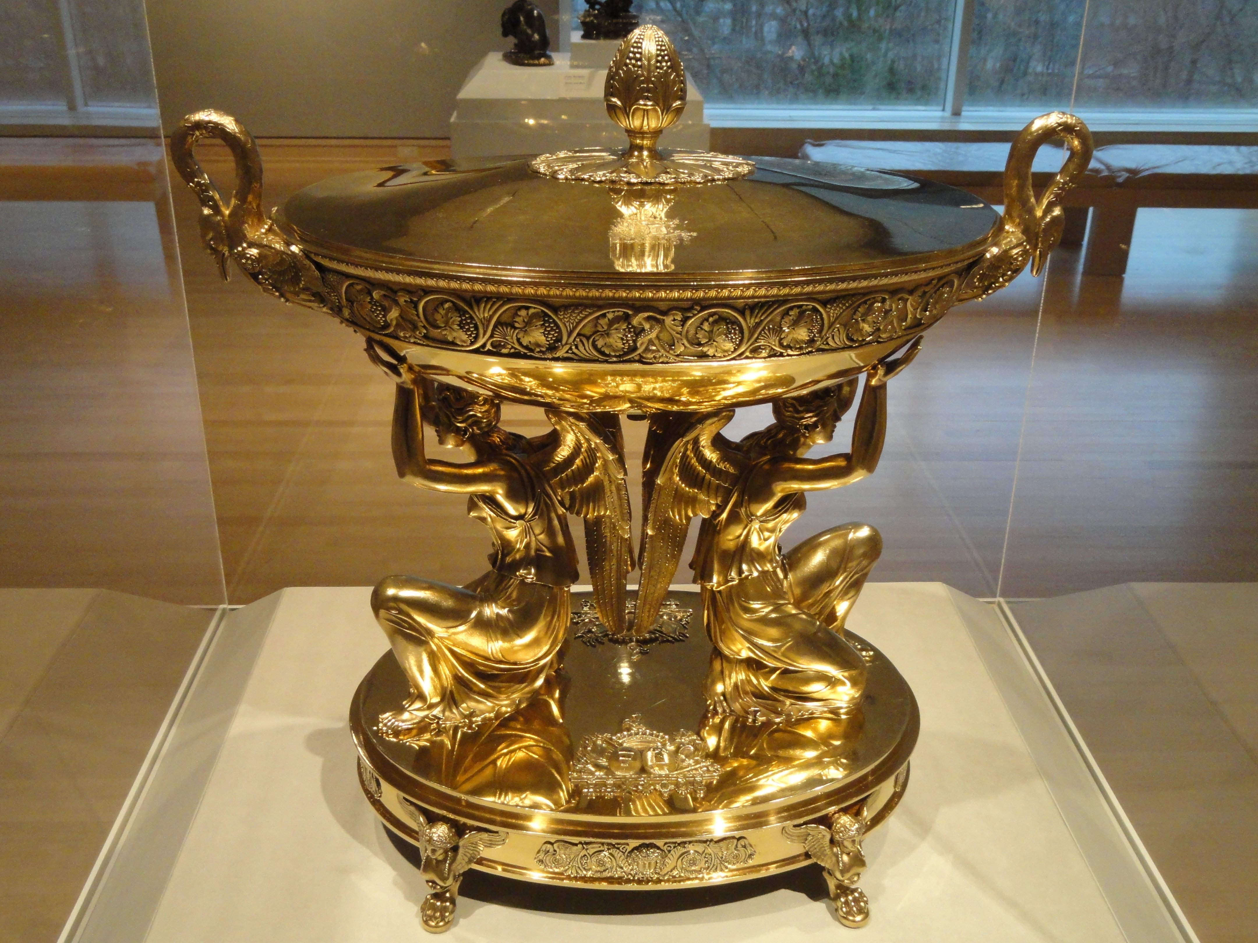 Soup tureen, Jean-Baptiste-Claude Odiot, 1819, gilded silver. Exhibit in the Indianapolis Museum of Art, Indianapolis, Indiana, USA.